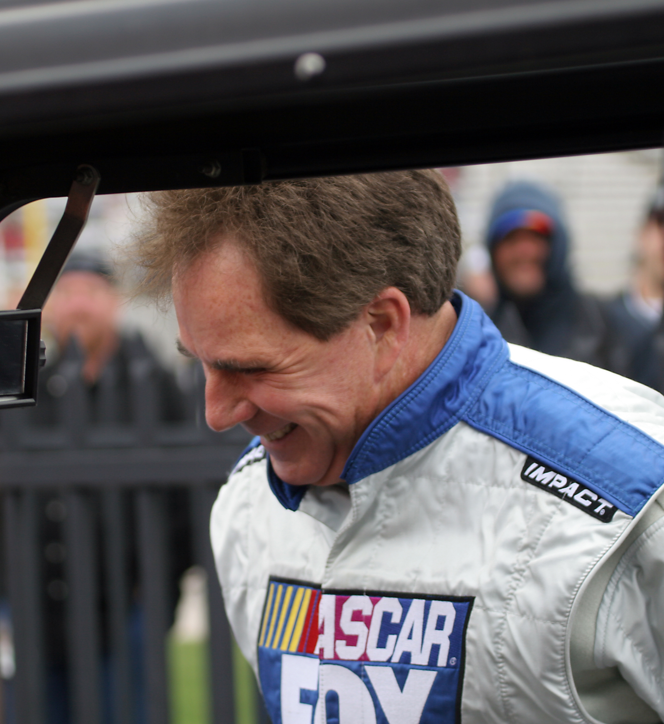 Darrell Waltrip prepares to film the track preview for tomorrow's NEXTEL Cup race on FOX SportsD.W.